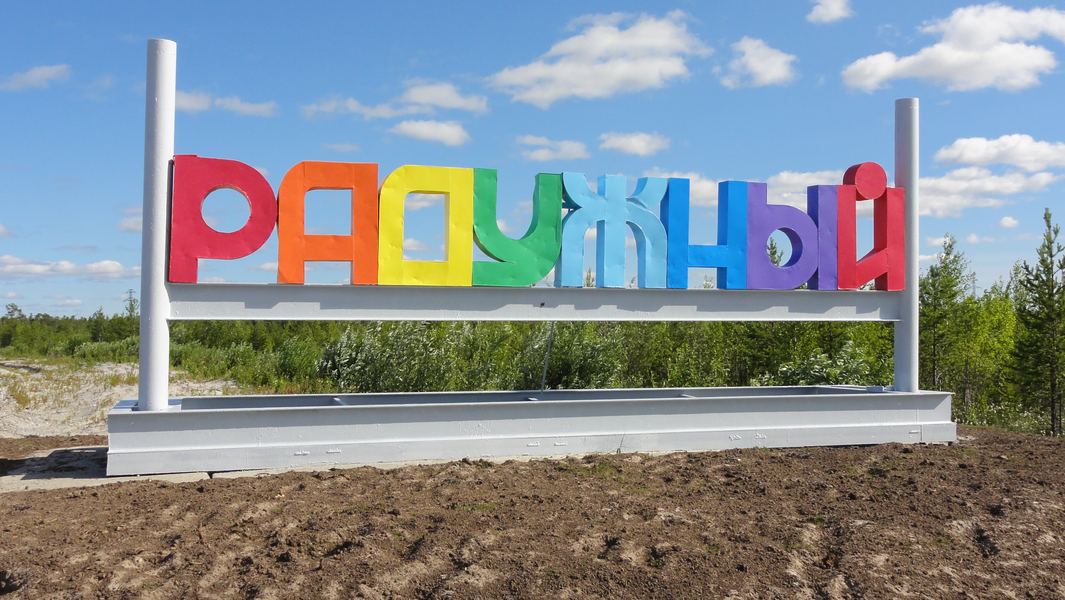 Raduzhny, Khanty-Mansi Autonomy